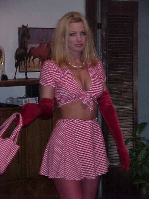 Aja, February 29, 2000